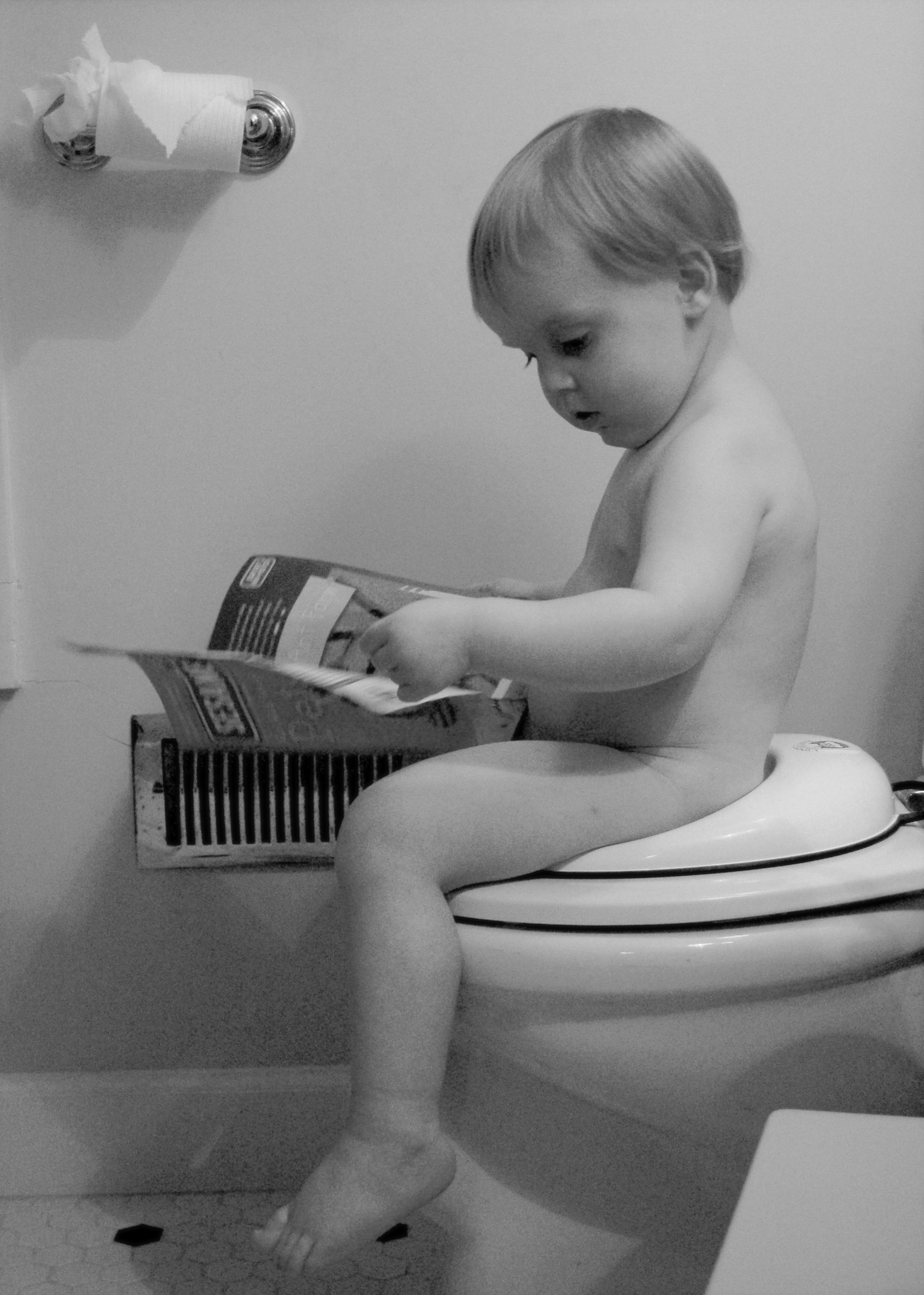 "Somehow it's more charming in black and white." Toddler seated on toilet with magazine.